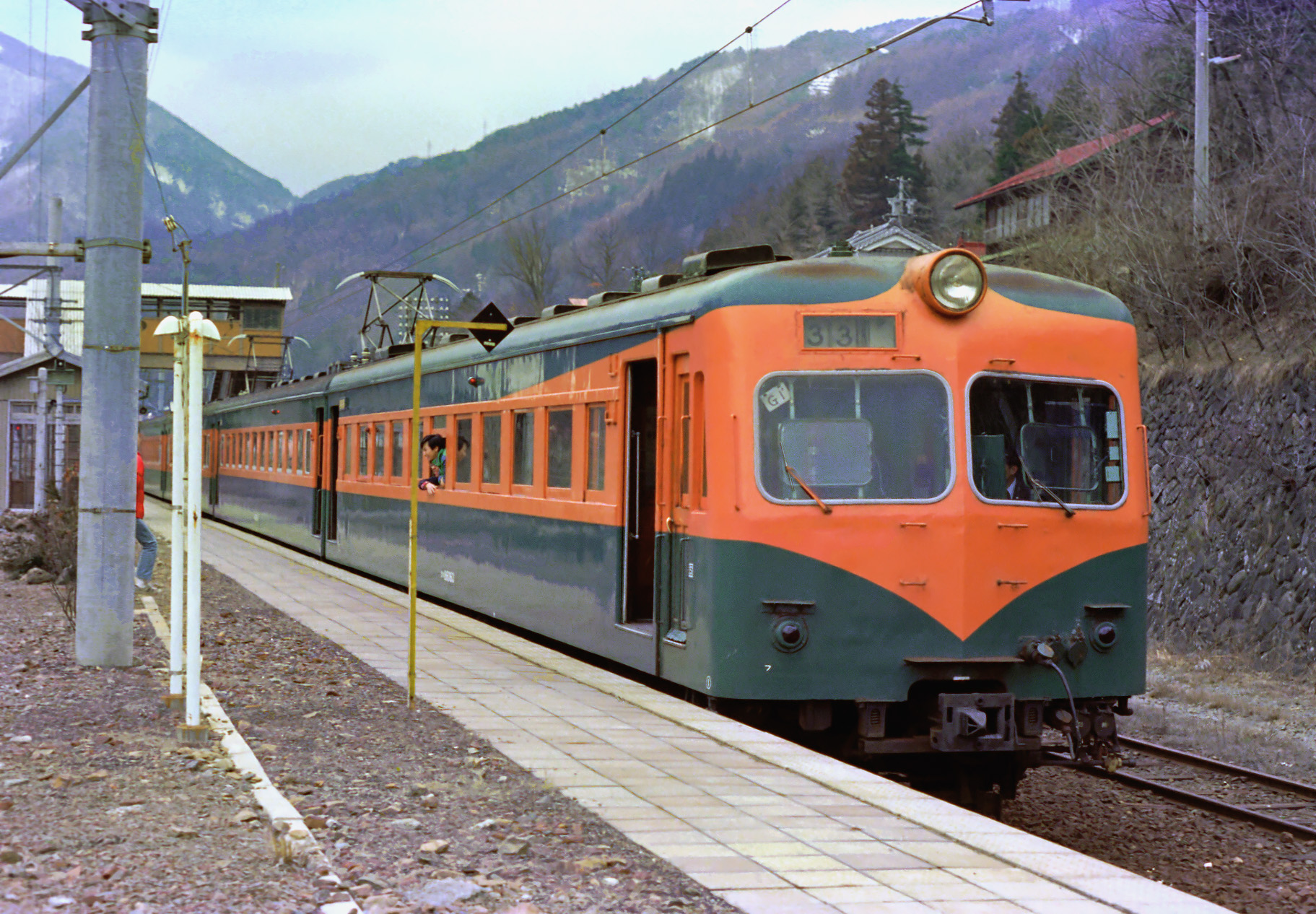 A Japanese National Railways 80 series EMU at Narai Station on the Chuo Main Line. The leading car is KuHa 86063.